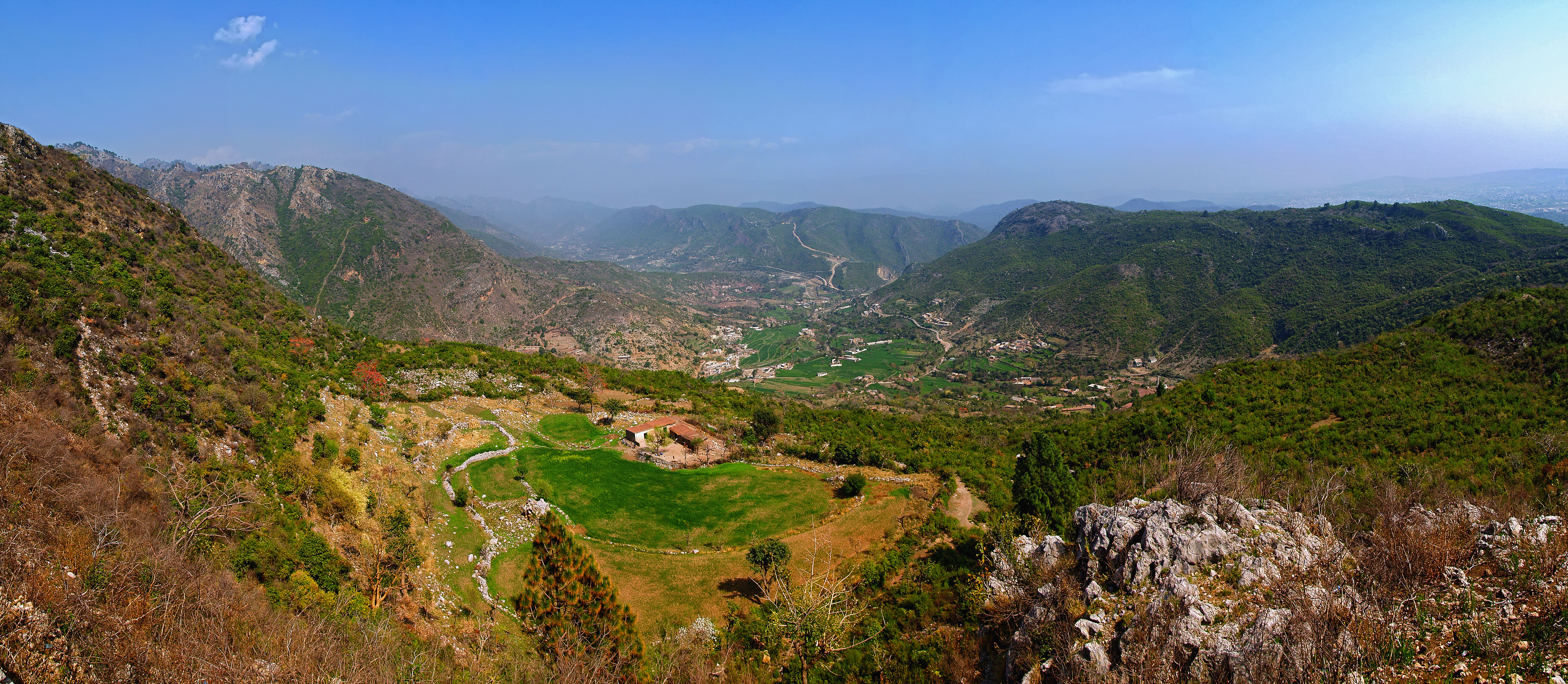 Valley in the eastern Margalla Hills near Shahdara (background), Islamabad CT, Pakistan. View eastwards. – Above the village of Rimli (Rimly), behind the Quaid-E-Azam University in Islamabad, there is a pathway going up in the heights to nowhere. Few wander into that isolated place. The condition of road is not good for the saloon cars but wonderful for the Jeeps. A high point up there gives a panoramic view of Shadra (Shahdara) Valley on one side and Rimly village beneath along with the vista of twin-city opening up to tens of kilometers before you.